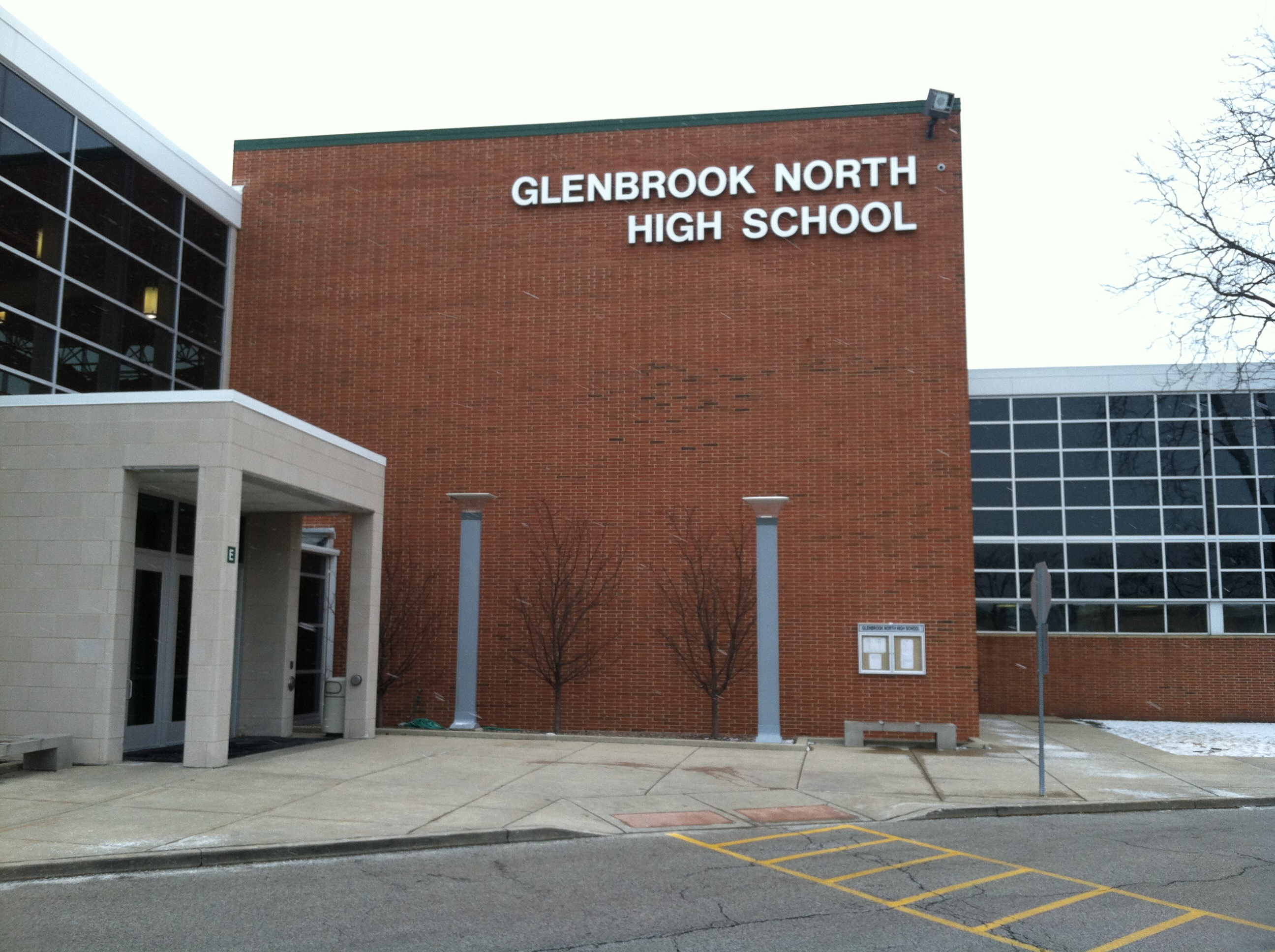 GlenbrookNorth2